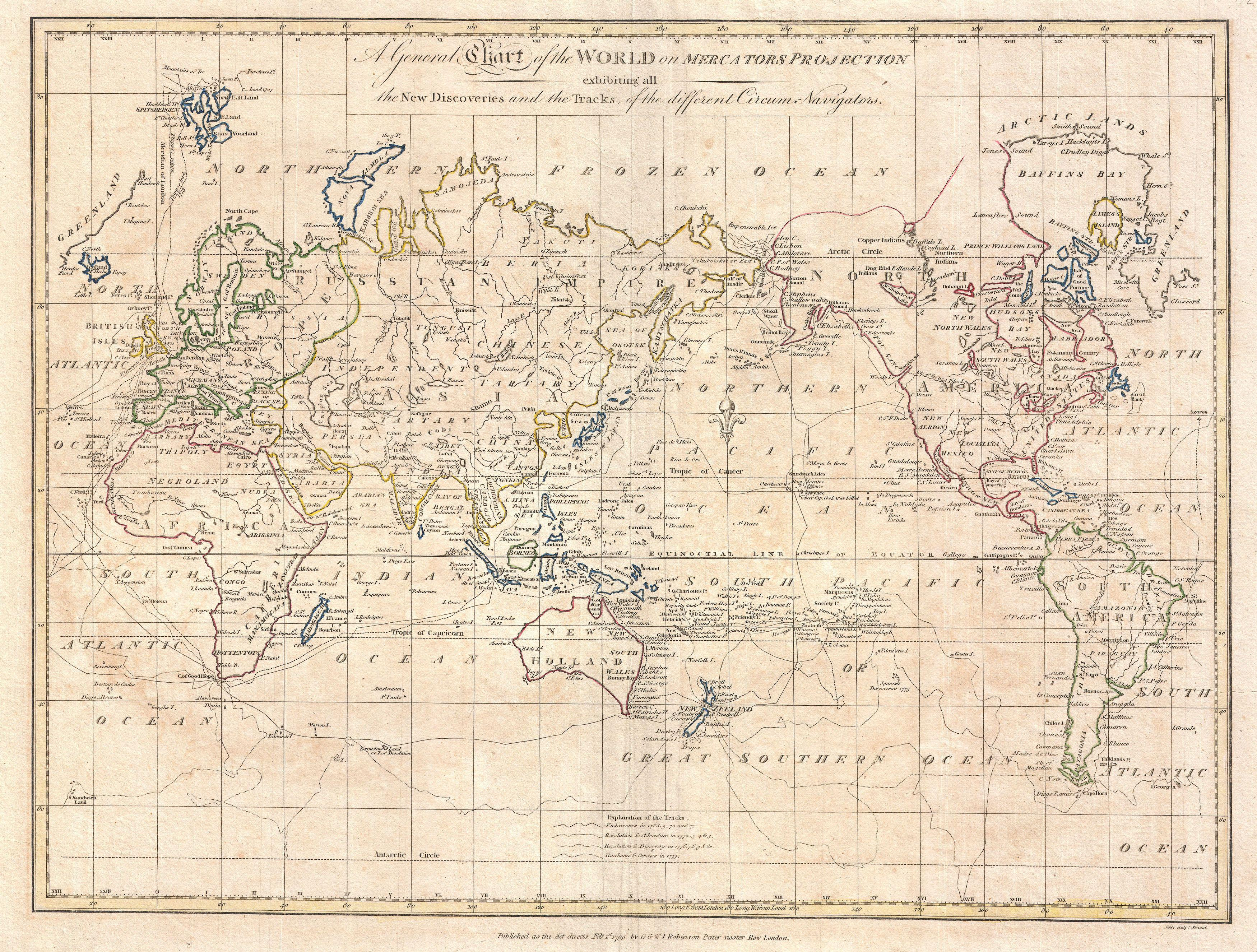 A fine example of Clement Cruttwell's 1799 map of the world on Mercator's Projection. This is an elegant world map designed to illustrate the activities of important explorers of the 17th and18th centuries. The tracks of Cook, Anson, Bourgainville, Wallis, Furneaux, and others are noted. Cook's work in the late 18th century, being of extreme importance, is emphasized. Cartographically this map follows established convention but does feature the most recent discoveries of Cook and Vitus Bering in the Arctic, which are featured at top center. Inland detail is somewhat minimal and focuses on important cities and countries. There are however, a few anomalies worthy of note. Tasmania is attached to the Australian mainland. Japan is incorrectly aligned along the horizontal. The sea between Japan and Korea, the name of which is currently being disputed between Korea and Japan, is here identified as the Corean Sea. Antarctica, which has not yet been discovered when this map was drawn, is absent. The whole exhibits delicate outline color and fine copper plate engraving in the minimalist English style prevalent in the late 18th and early 19th centuries. Drawn by G. G. and J. Robinson of Paternoster Row, London, for Clement Cruttwell's 1799 Atlas to Cruttwell's Gazetteer.